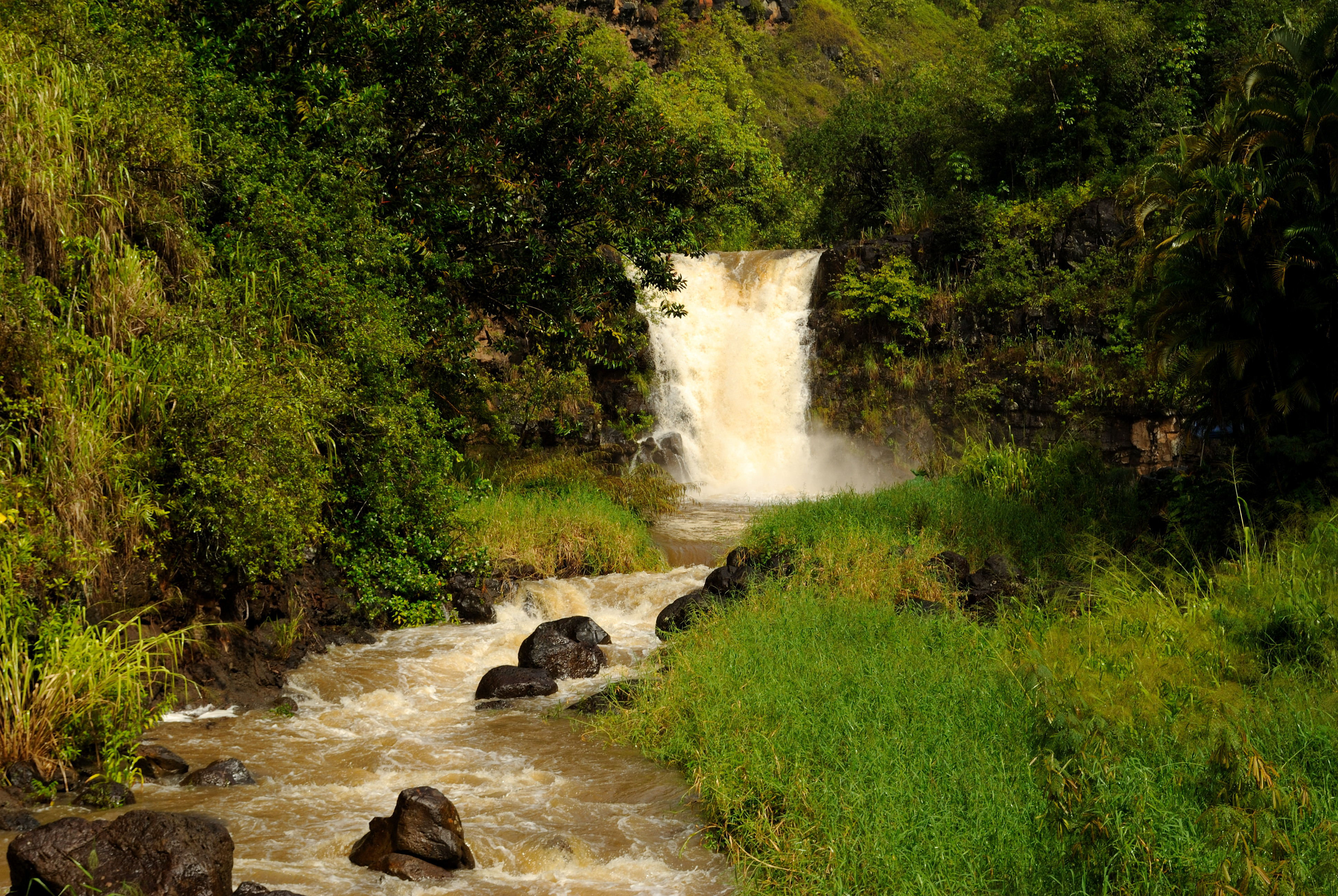 One last view before heading back.